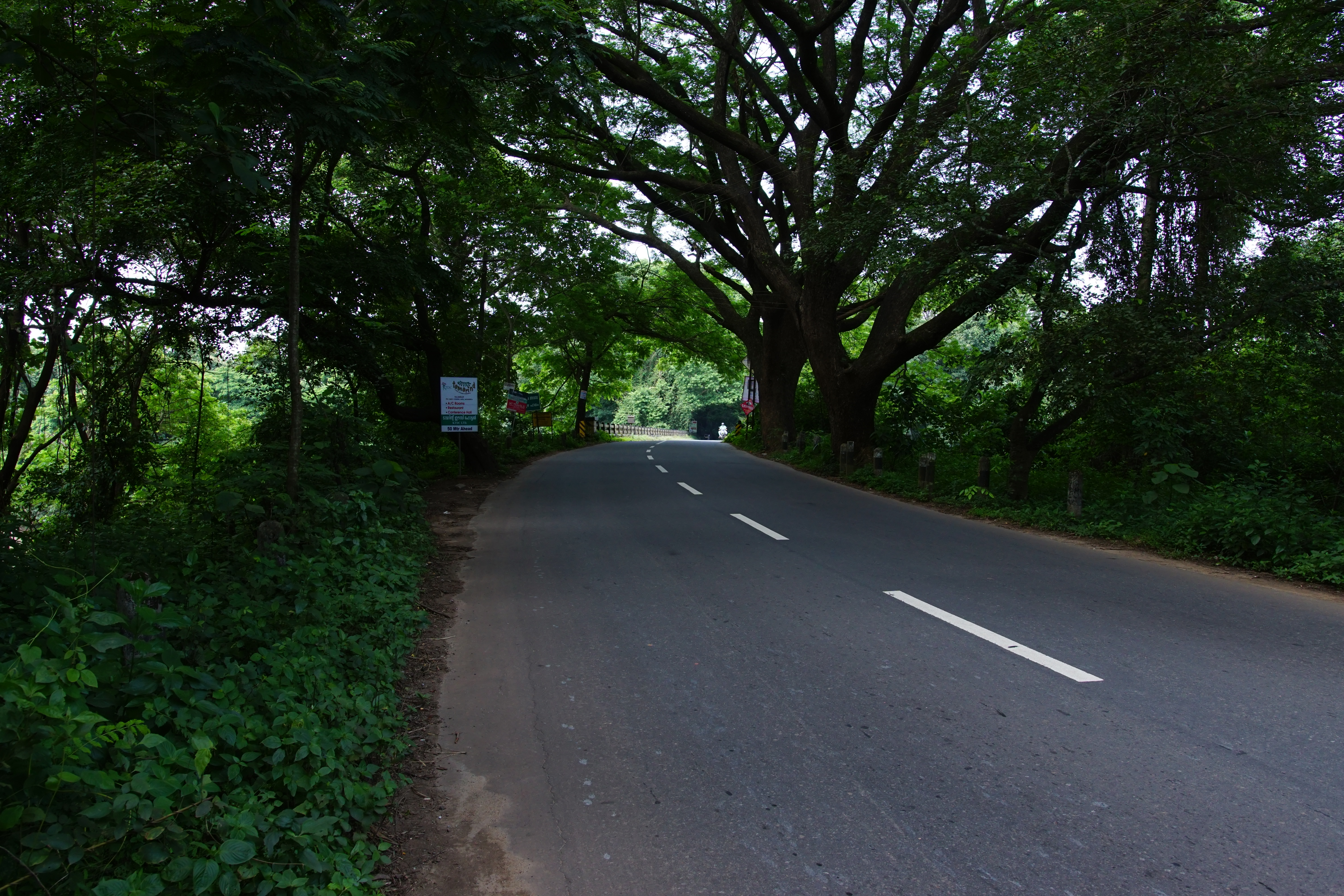 Nilambur